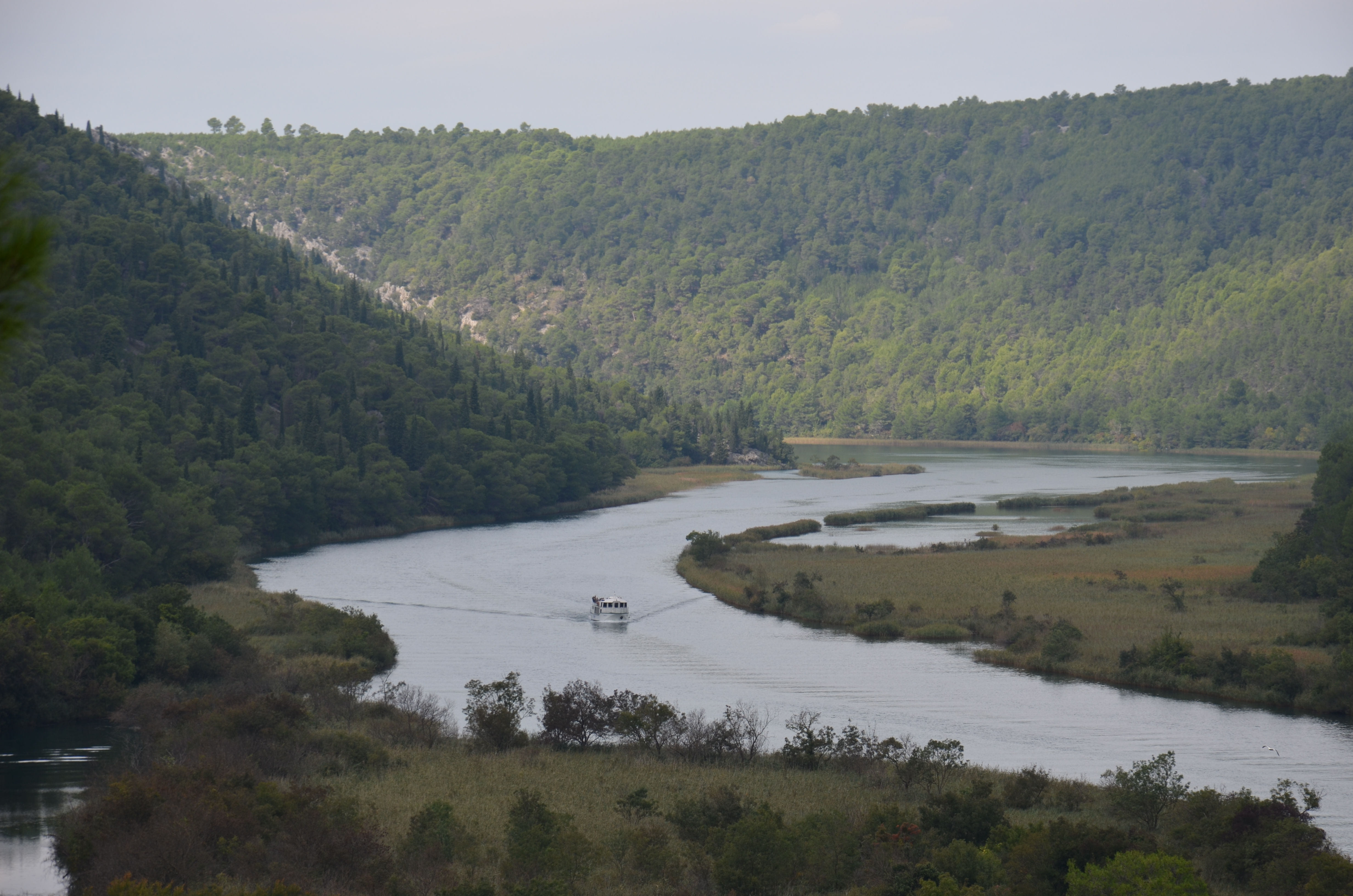 Krka river, just south of Skradinski buk